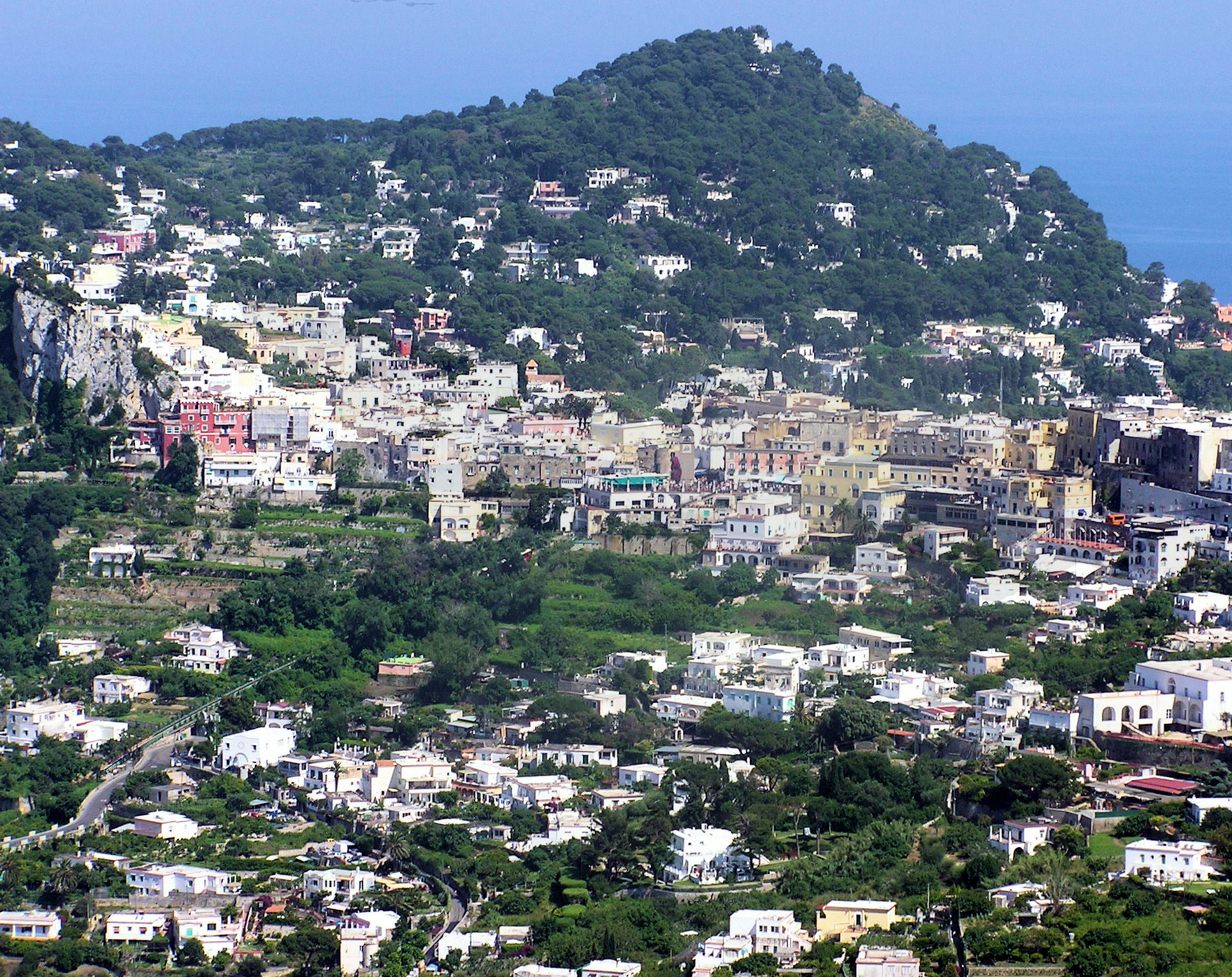 A general view of part of Capri. The funicular railway runs diagonally on the left.